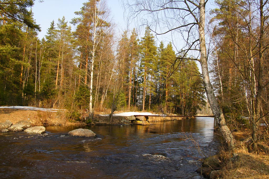 channel between lakes Gubanovskoe & Sokolinoe